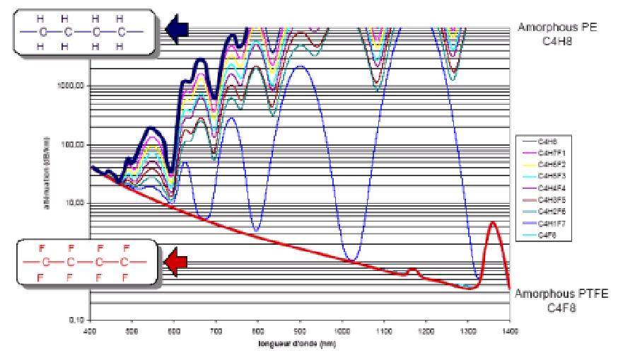 Optical fiber C-F vs C-H attenuation and absoption